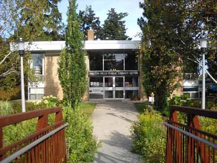 The Acton Branch of the Halton Hills Public Library